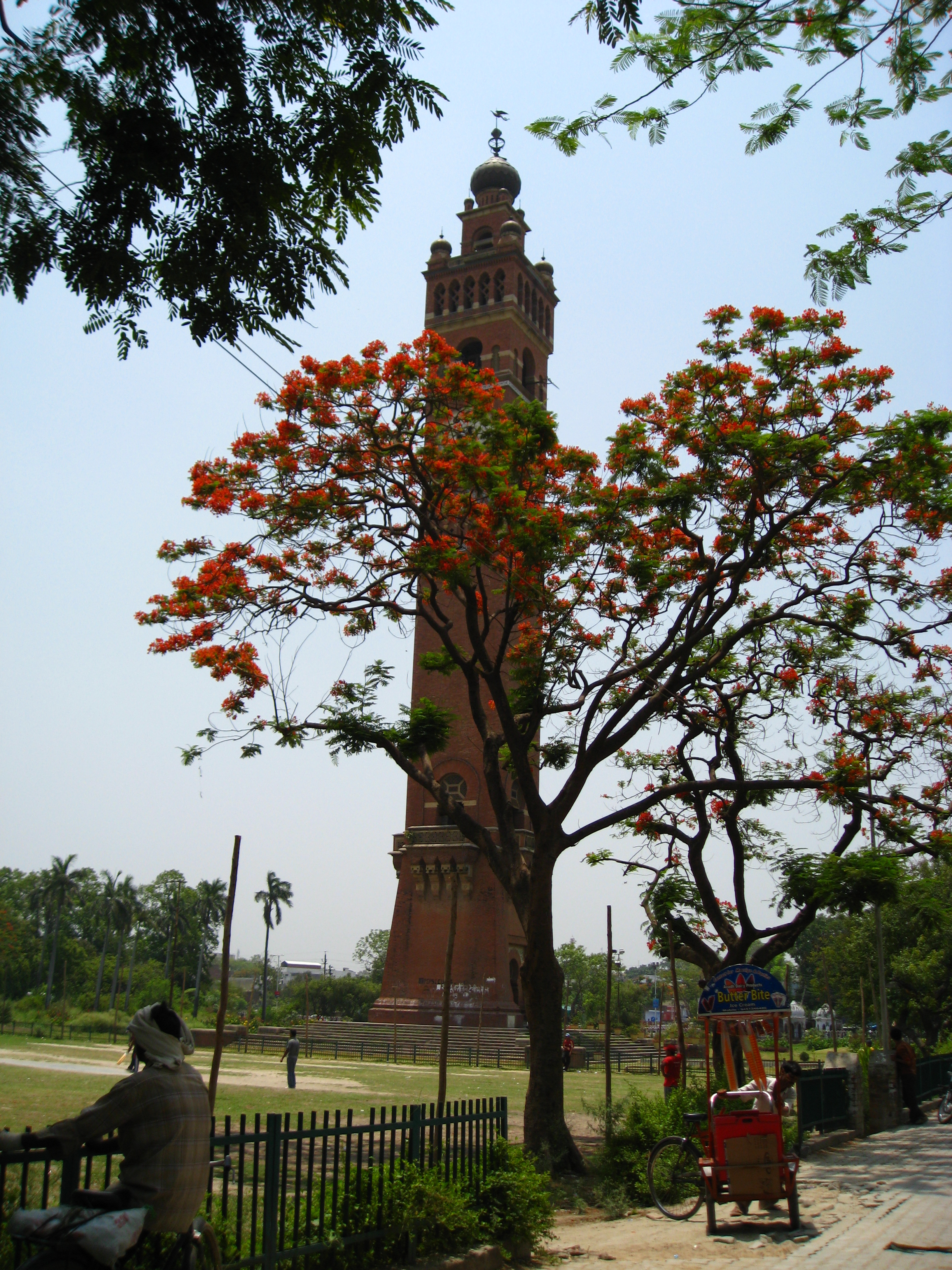 Ghanta Ghar